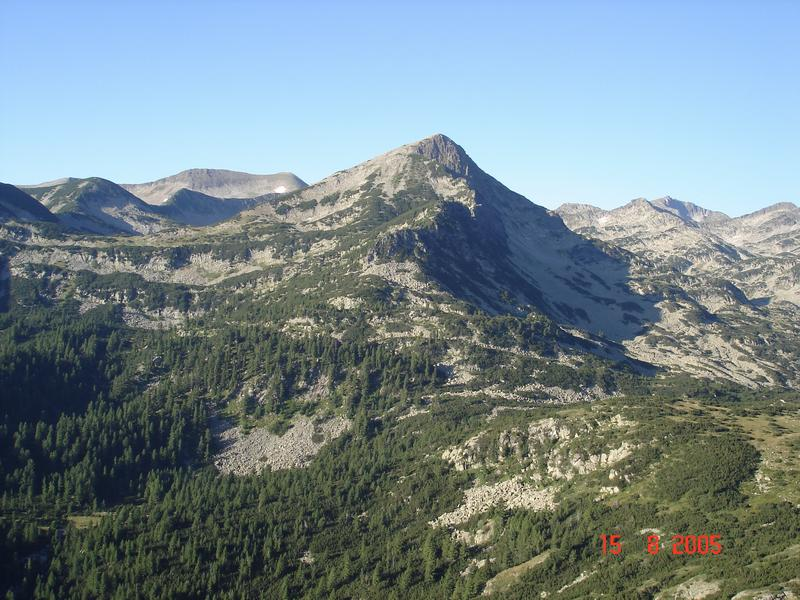 Sivria - summit in Pirin mountain in Bulgaria